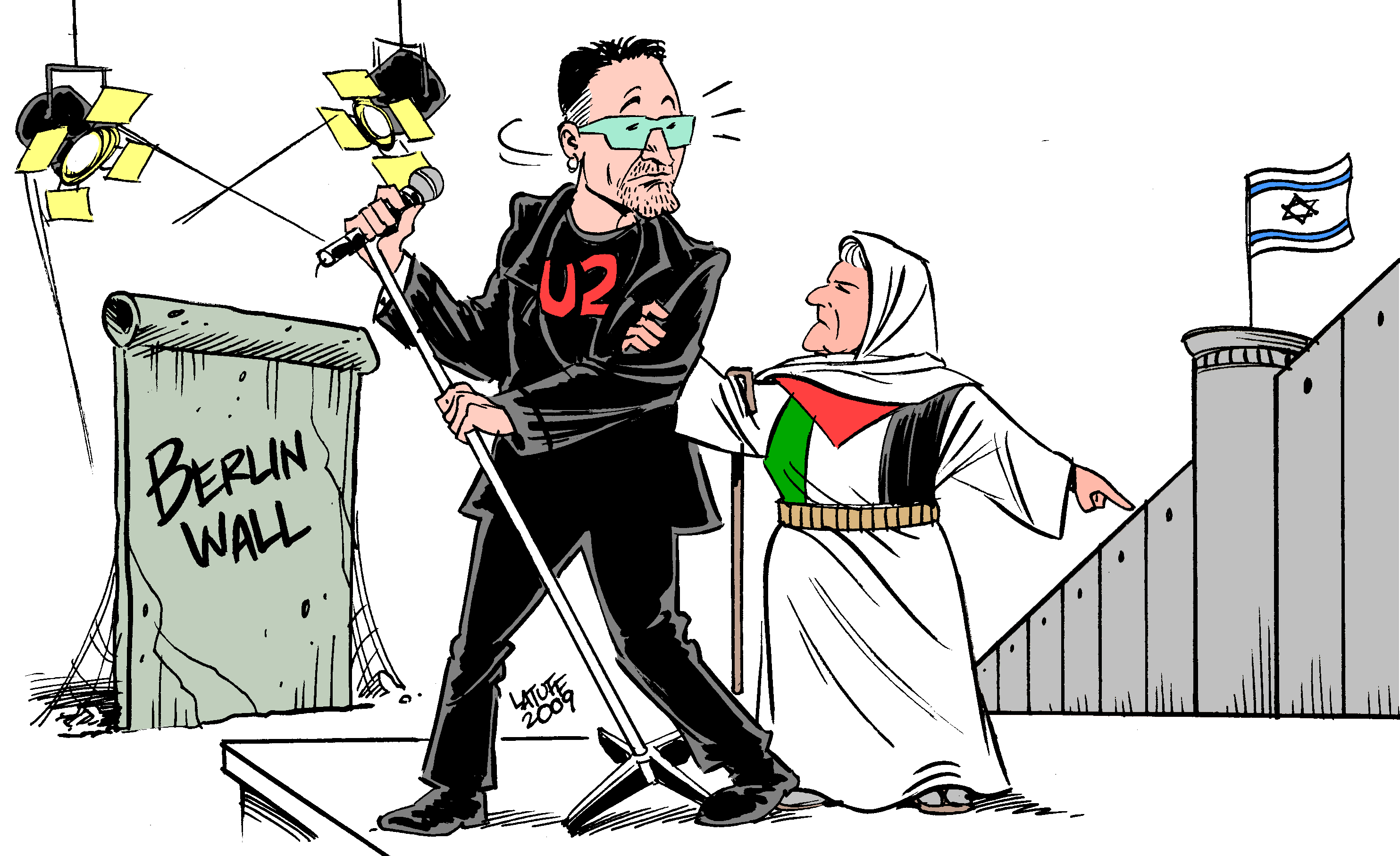 The Berlin Wall 20 Years Later